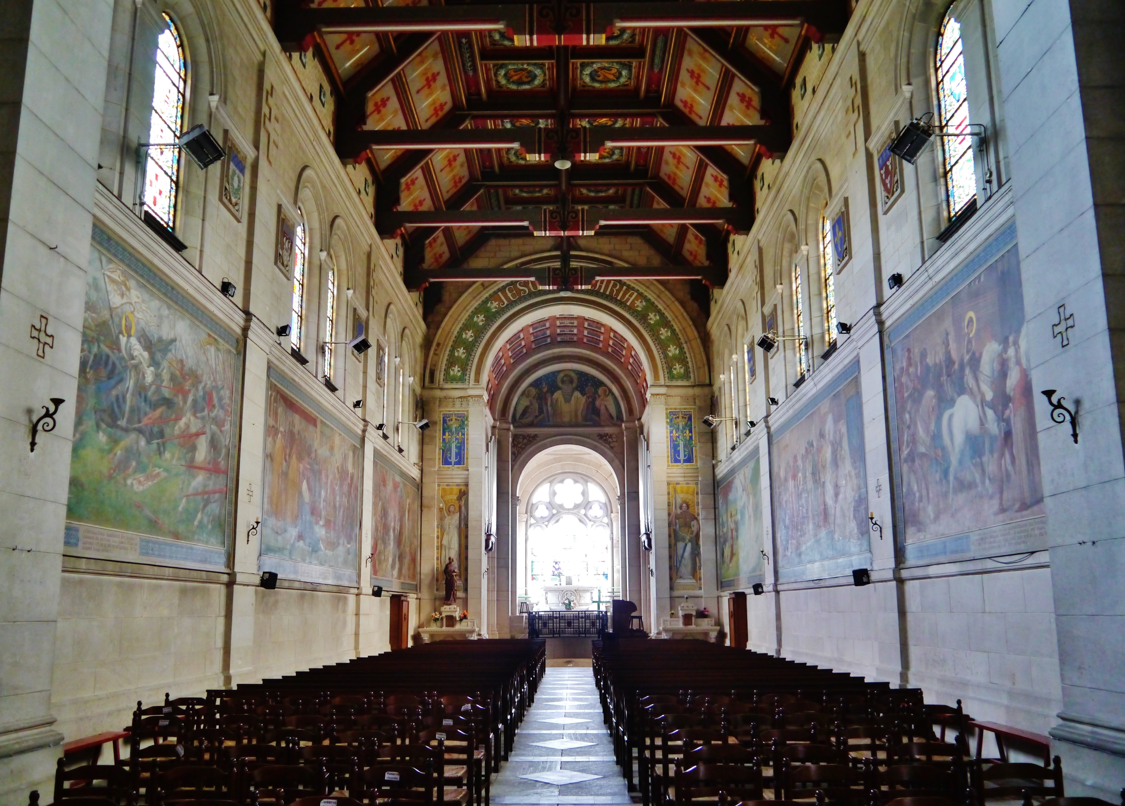 Nave of the Basilica Bois-Chenu, Domrémy-la-Pucelle, Département Vosges, Region of Lorraine (now Grand East), France